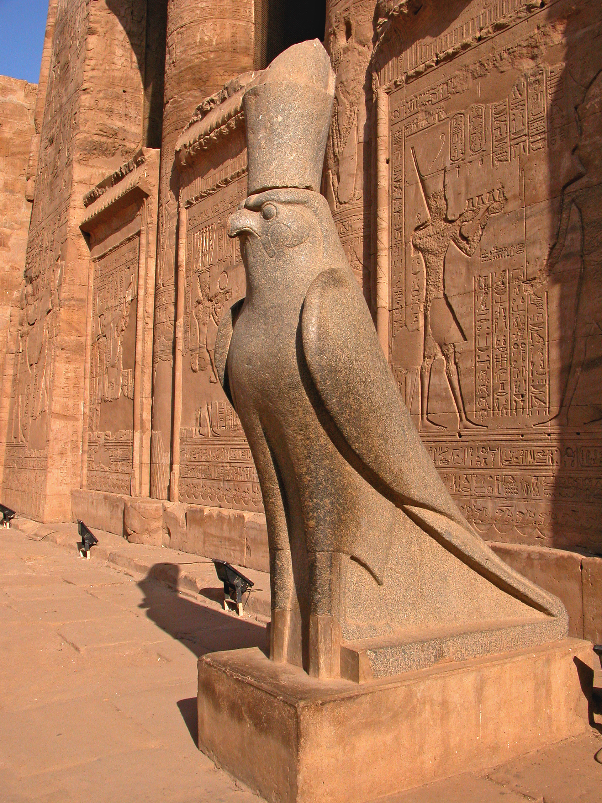 The famous colossal black granite statue of Horus as a falcon, wearing the double crown of Upper and Lower Egypt. Temple of Horus, Edfu, Egypt